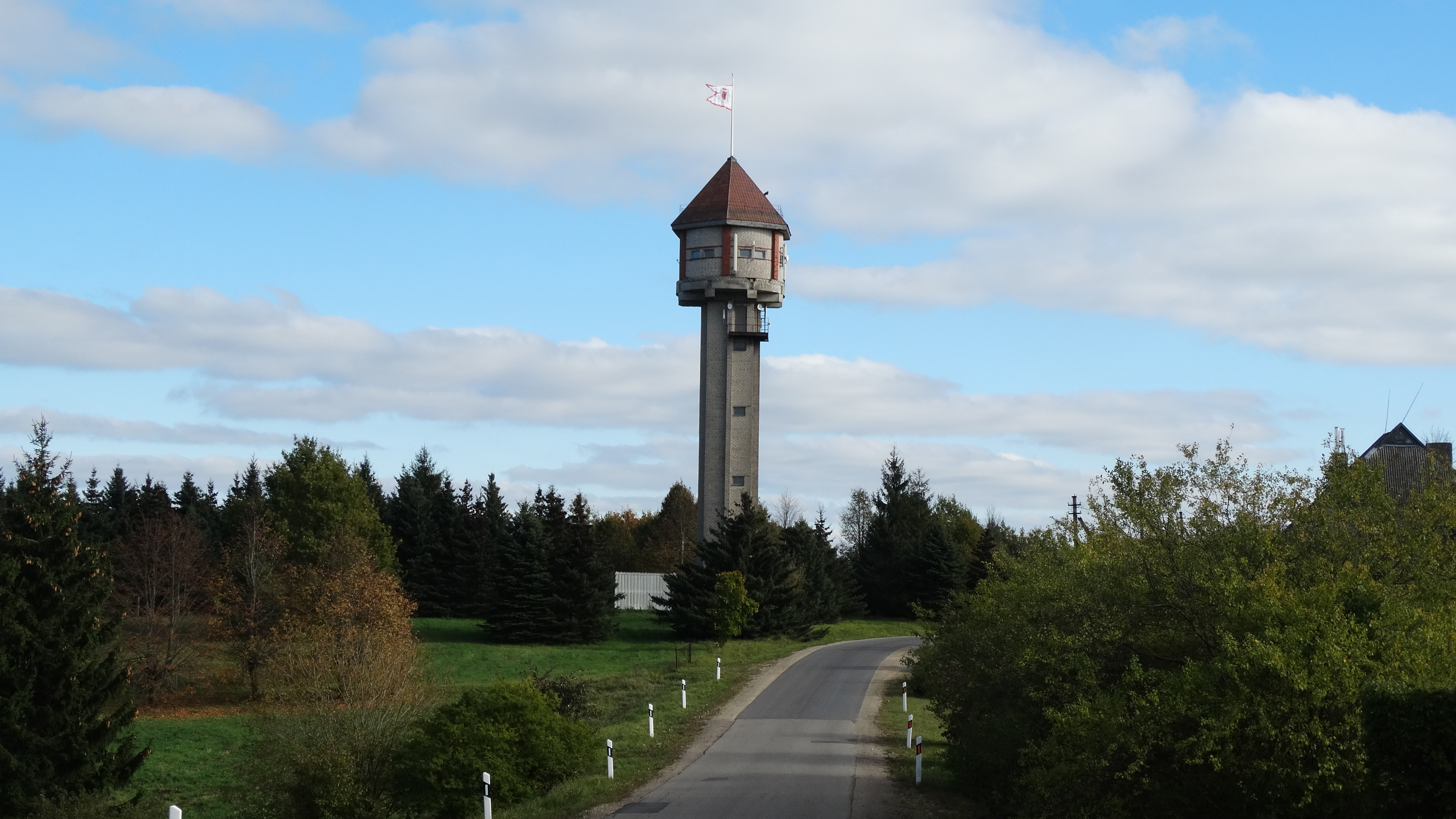 Water tower, Degaičiai, Telšiai district, Lithuania